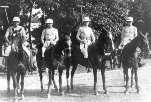 Argentina national polo team, winner of the gold medal at the 1924 Summer Olympic held in Paris. In the picture: Juan Nelson, Enrique Padilla, Arturo Kenny y Juan Miles.